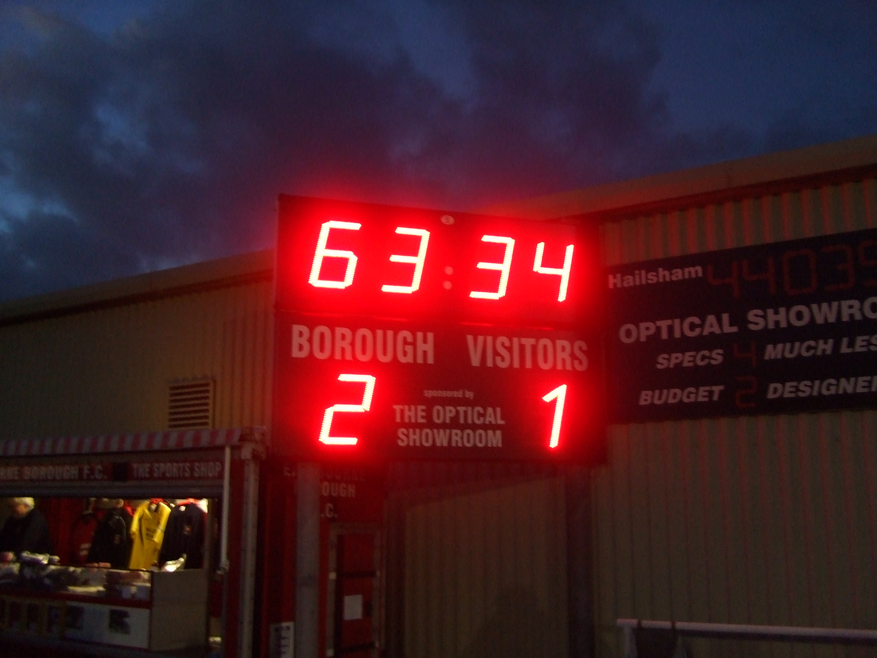 The score board at Eastbourne Borough F.C.